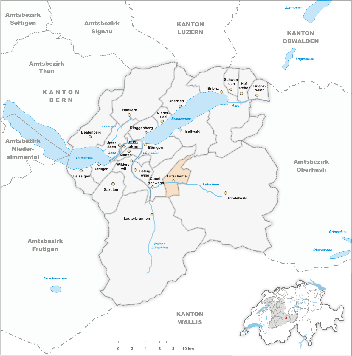 Municipality Lütschental